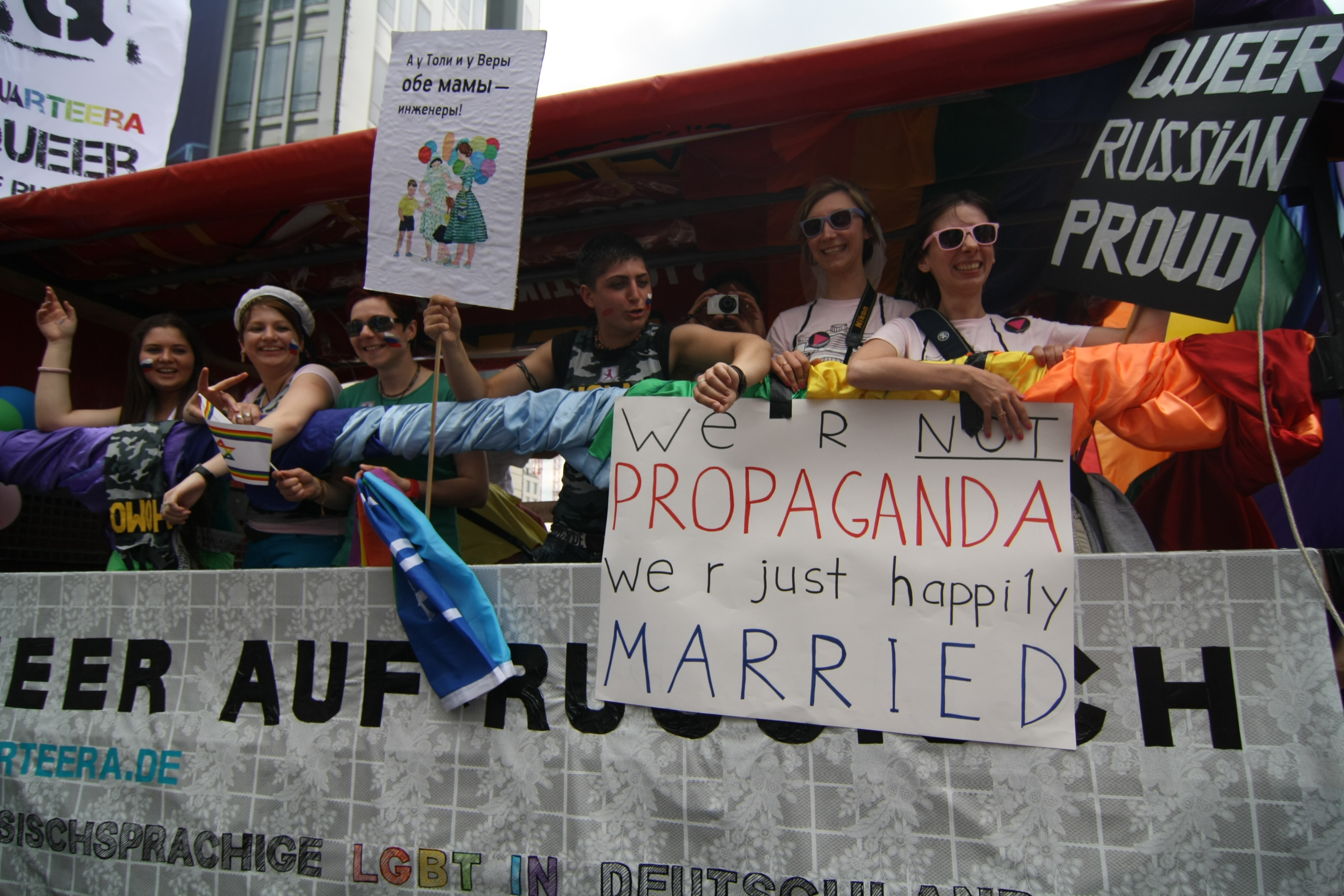 The Christopher Street Day march in Berlin (June 23, 2012).